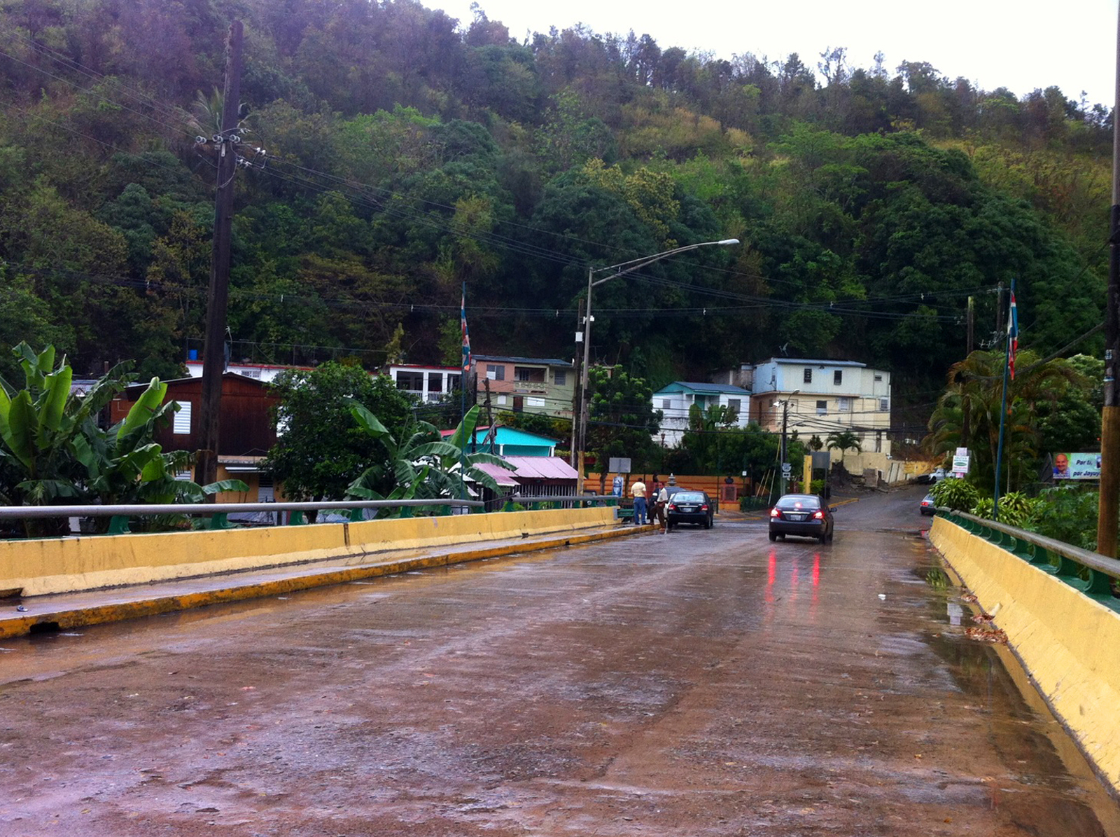 Bridge over the Rio Grande de Jayuya (PR 141R), entrance to the village of Yayuya. Looking north